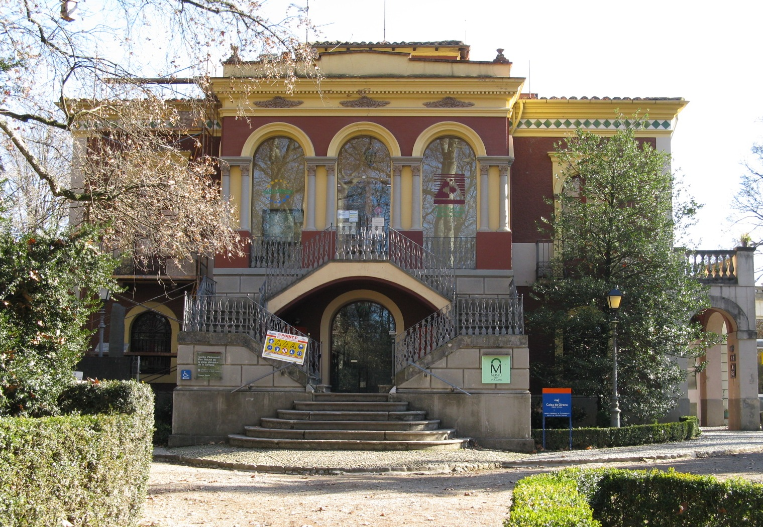 Volcano Museum at Parc Nou (Olot, Provincia de Girona, Catalonia).